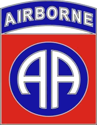 82nd Airborne Division CSIB